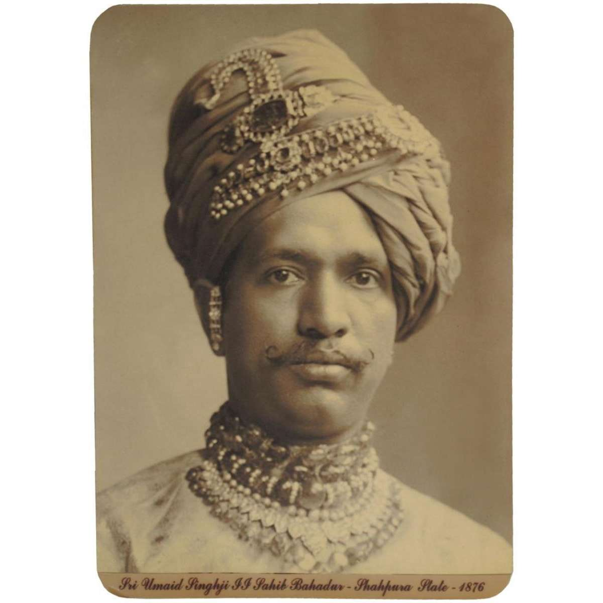 Sri Umaid Singhji